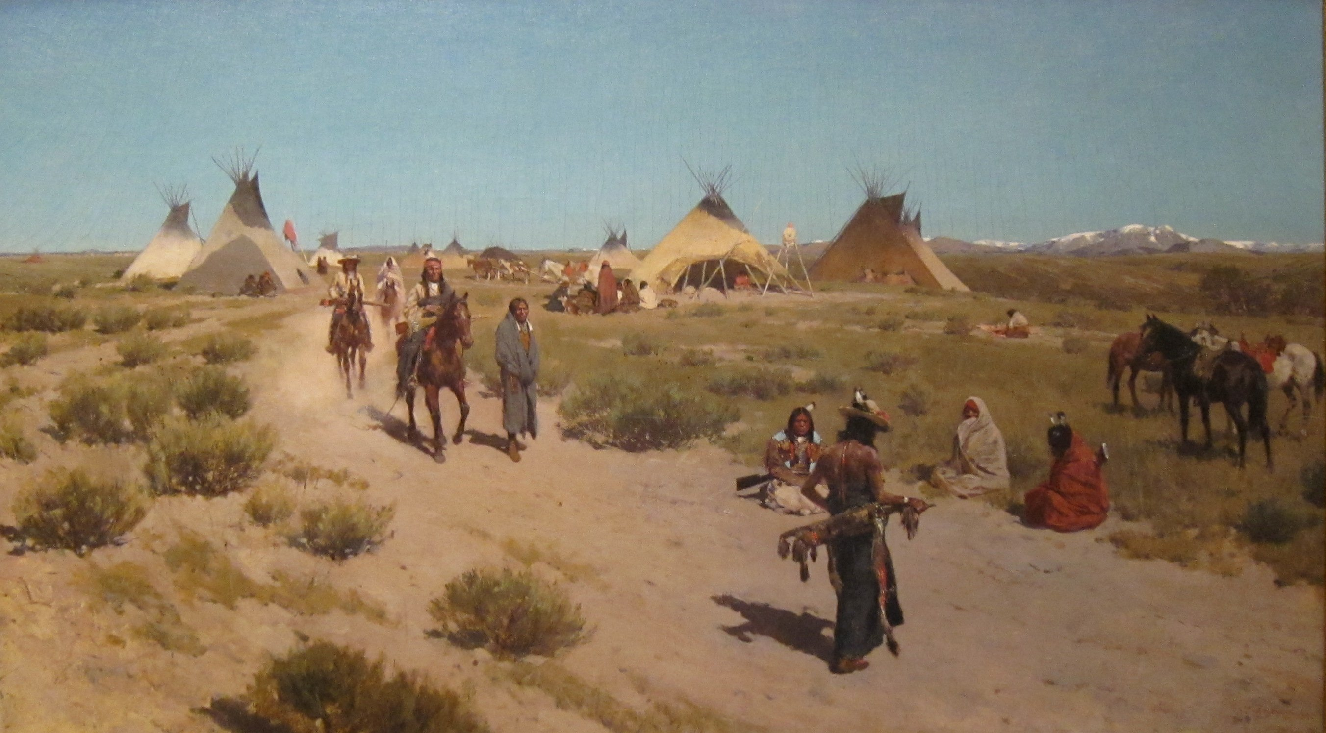 Hunting Camp on the Plains